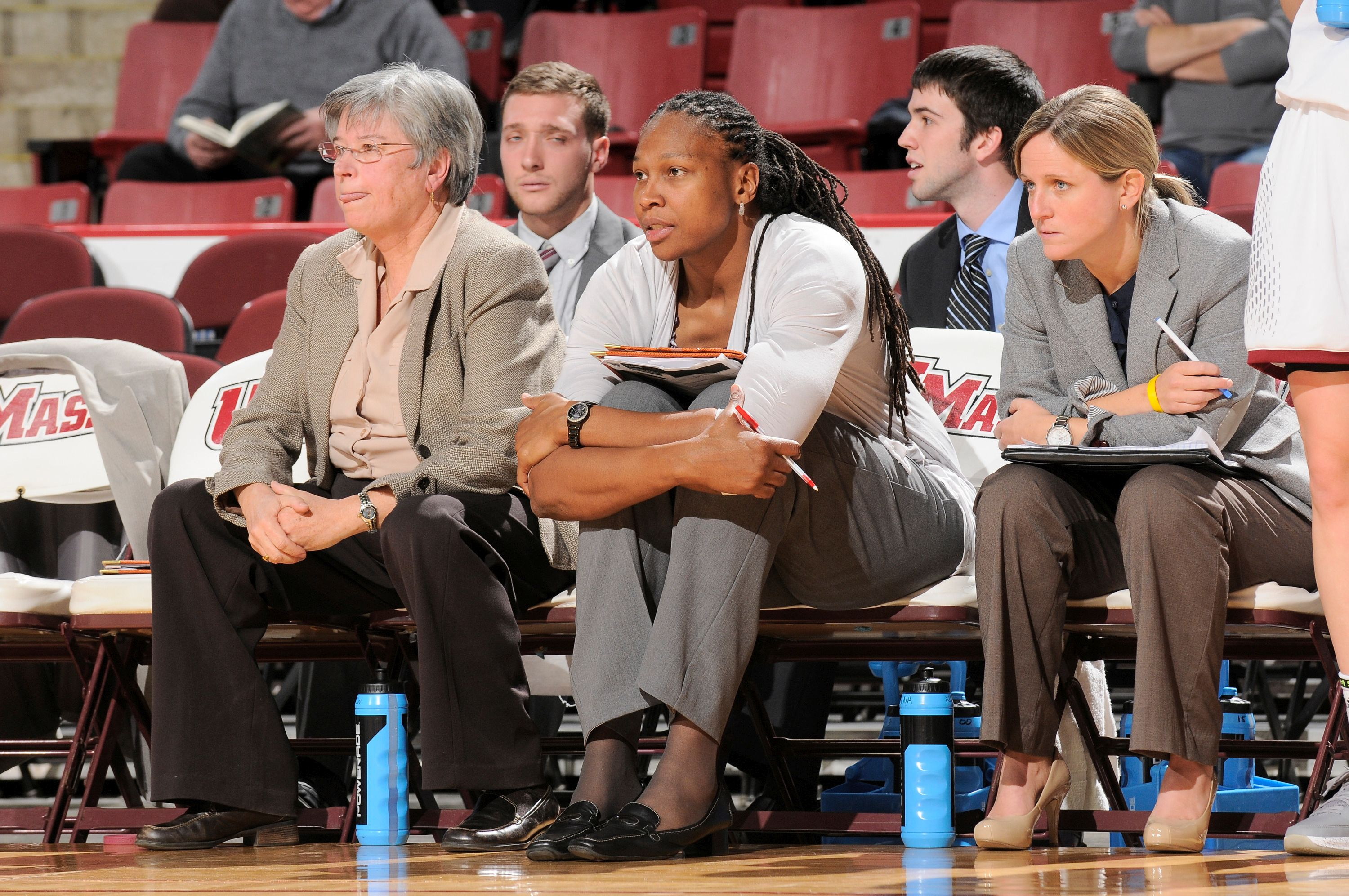 Griffith Yolanda Action